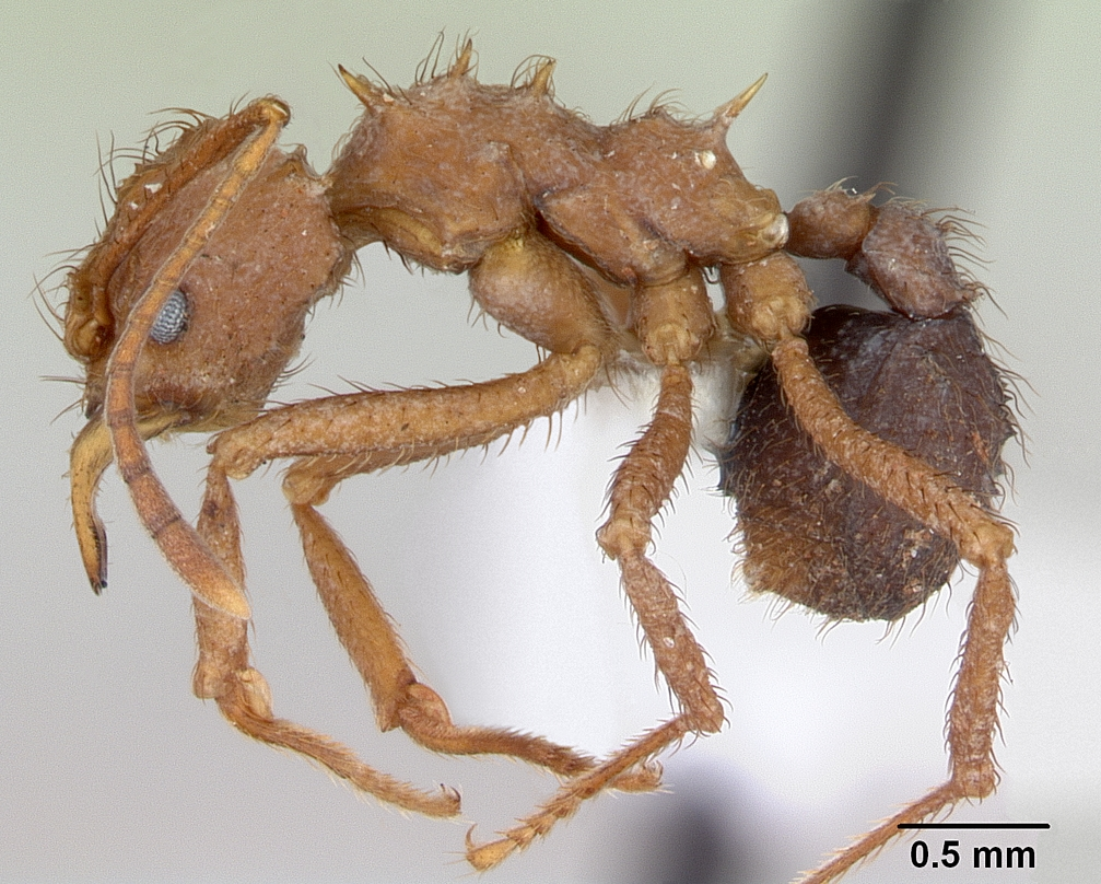 Profile view of ant Acromyrmex coronatus specimen casent0173791.